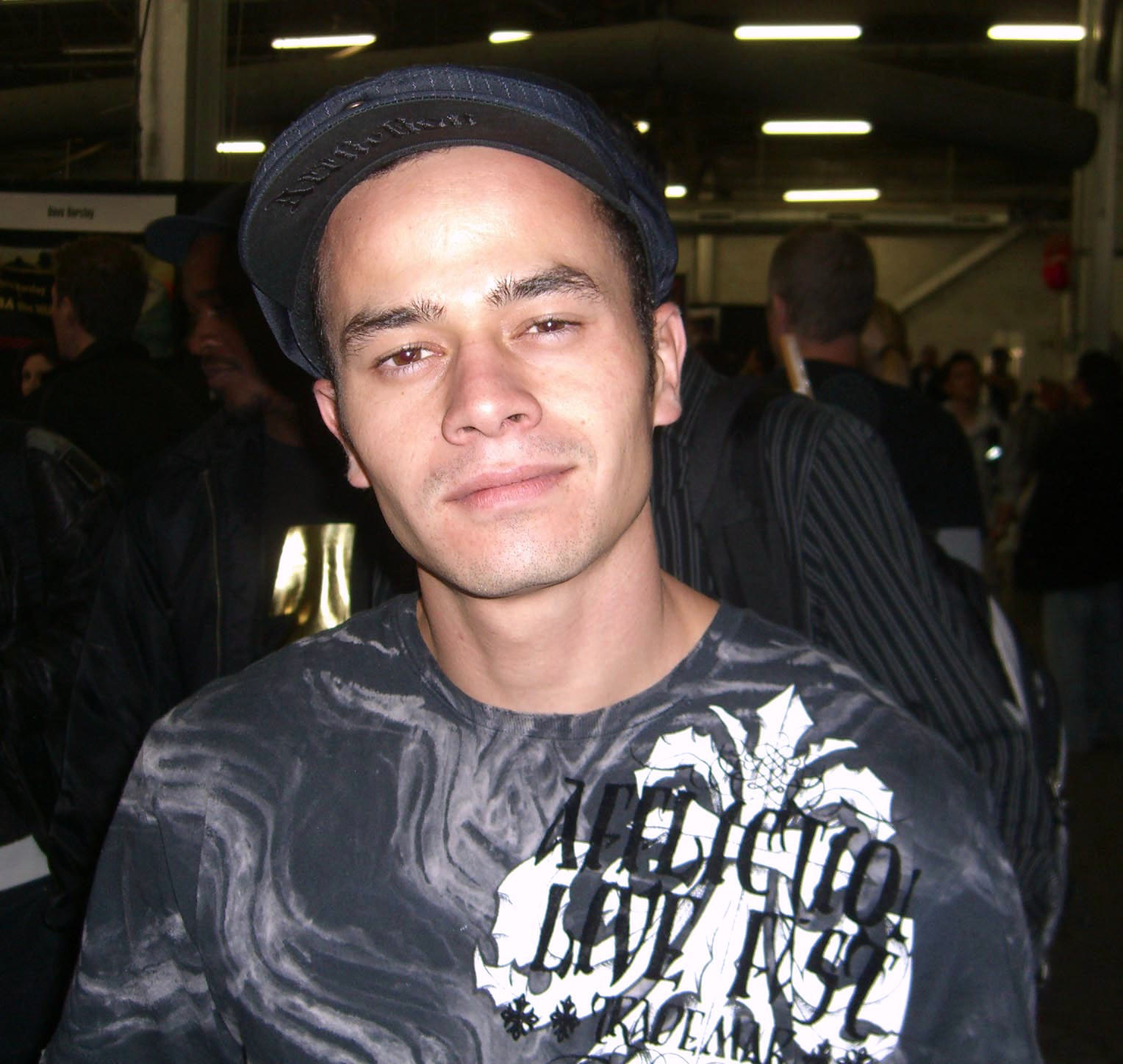 Actor Daniel Logan at the Big Apple Convention in Manhattan. Photographed by Luigi Novi. This photo may only be used if the photographer is properly credited. (See Licensing information below.)